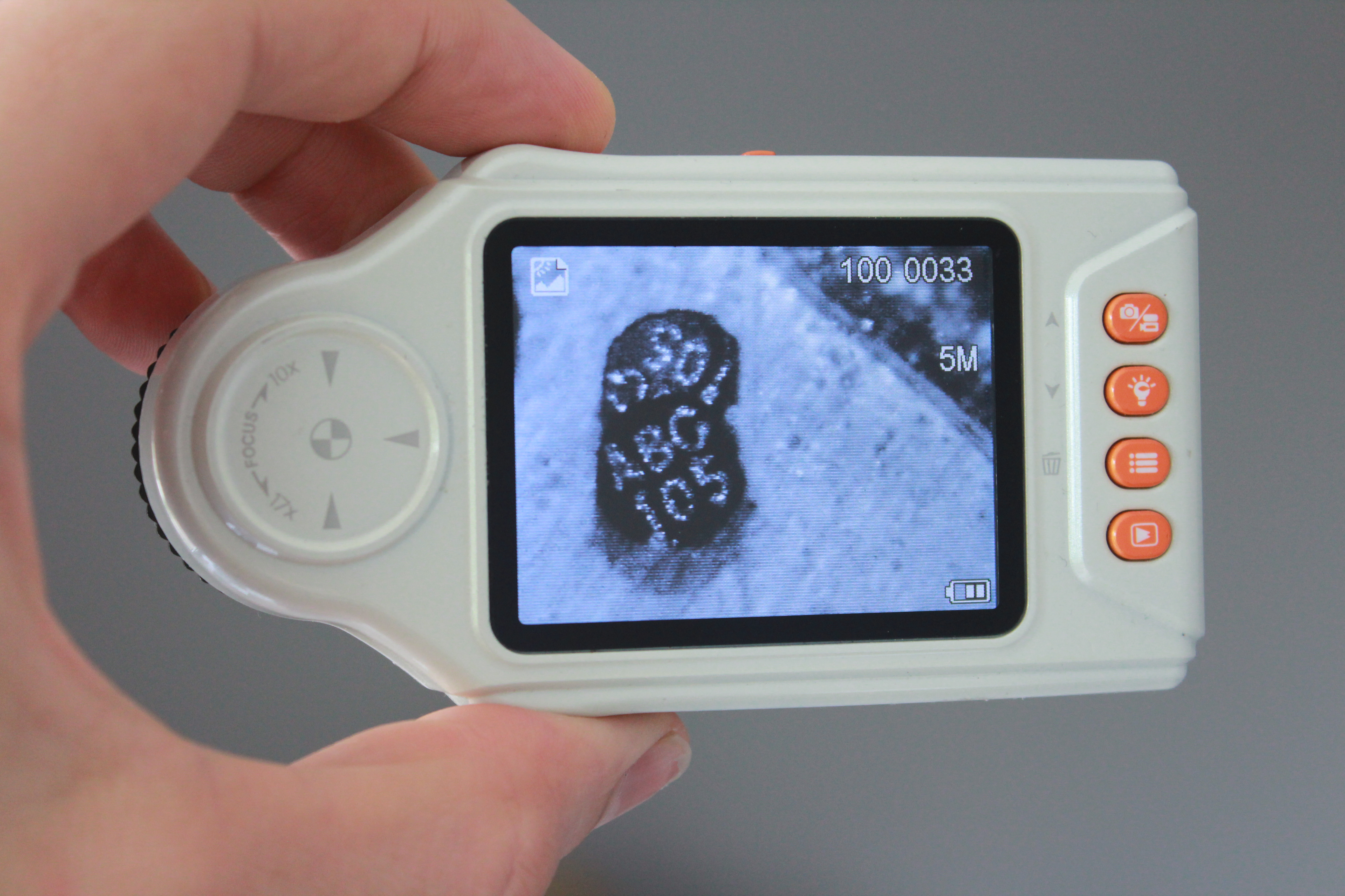 NanoID mikromärk suurendatult